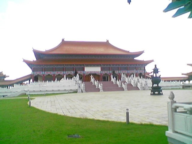 Own picture, taken with cellphone.